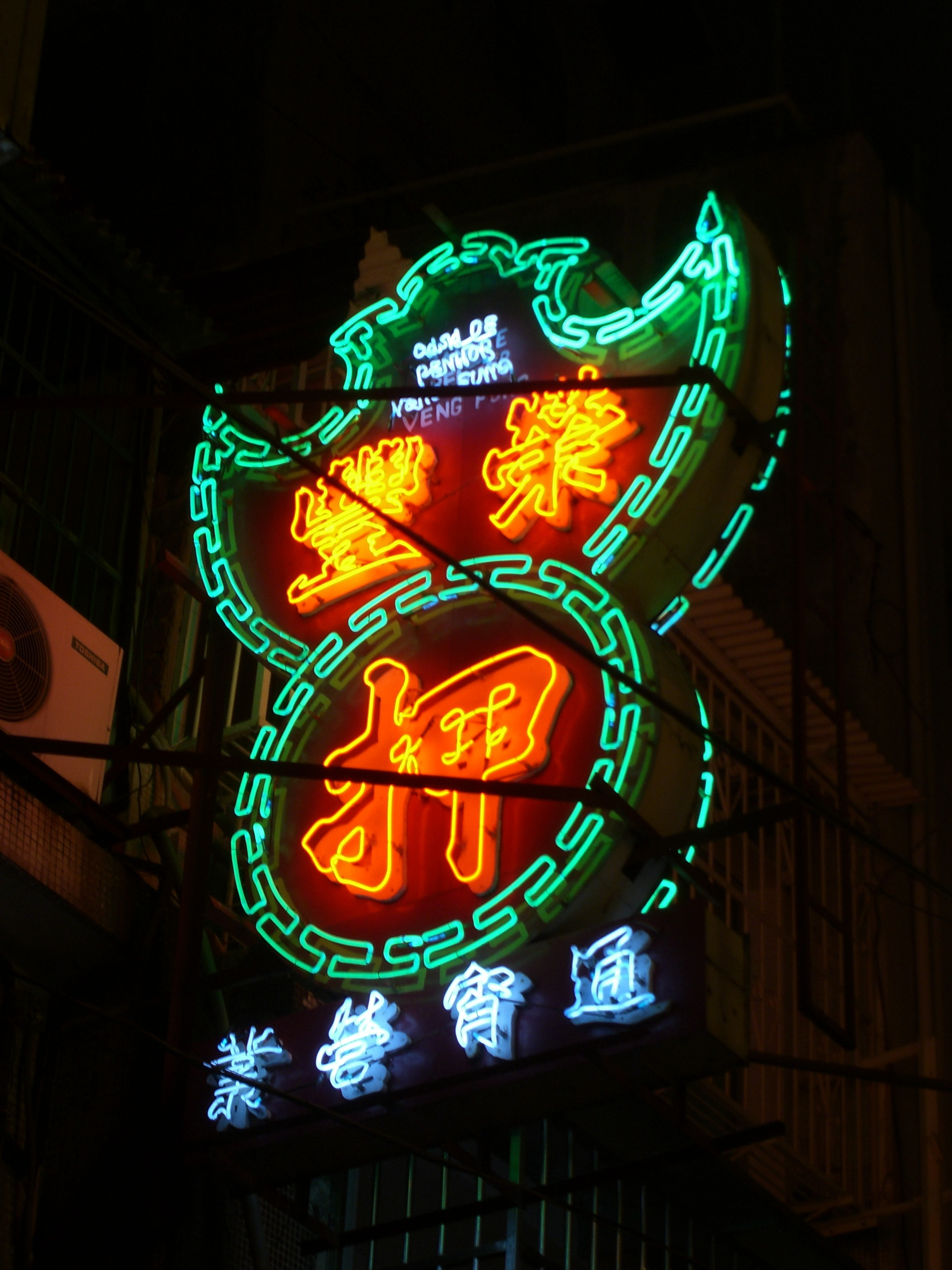 The Neon Sign of Veng Fung Pawn Shop in Macau